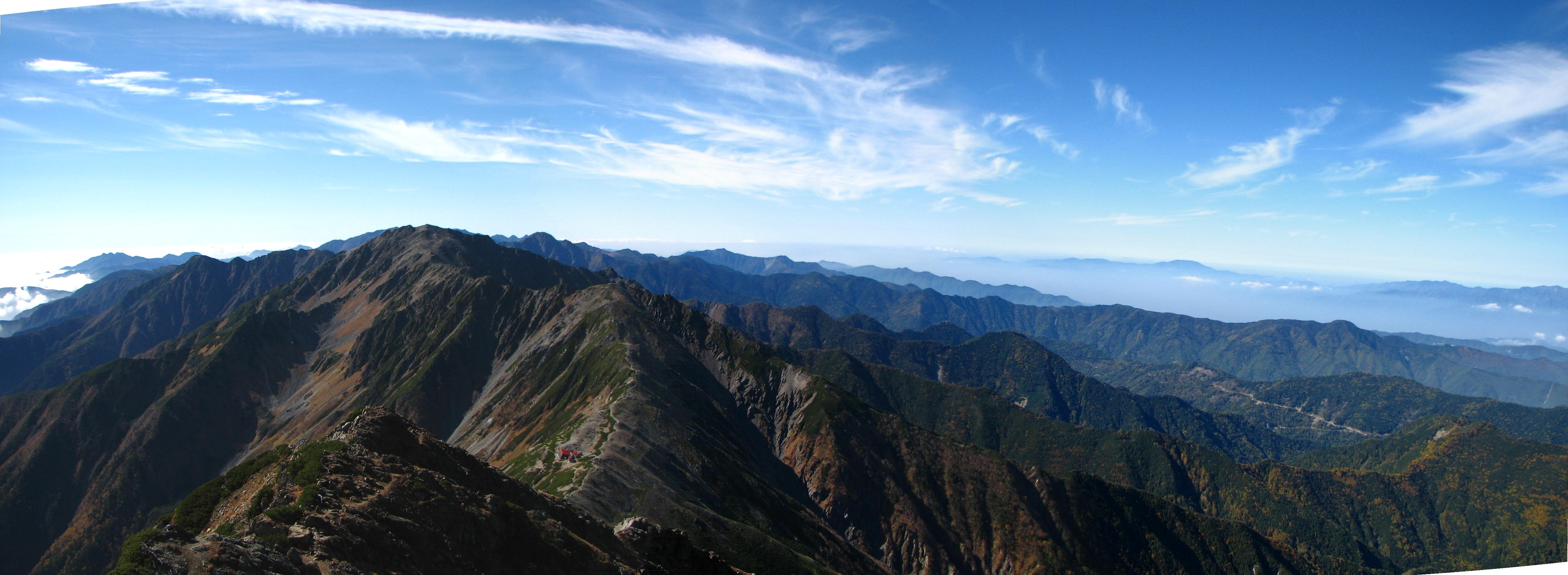 View_from_Kita_dake South-Alps, Japan. This photo was joined as panoramic photo from some Photos by Kumaapr9. Source: Photo taken by Kumaapr9 at Mt.Kita South-Alps, Japan. Date: 2006/10/13 Author: Kumaapr9 Permission: Kumaapr9 put it under the GFDL The following is explanation in Japanese. 北岳山頂からの眺望。間ノ岳をメインに左に農鳥岳、右に塩見岳等の南アルプスの山々。